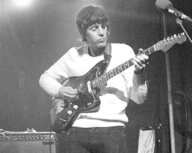 White Fence